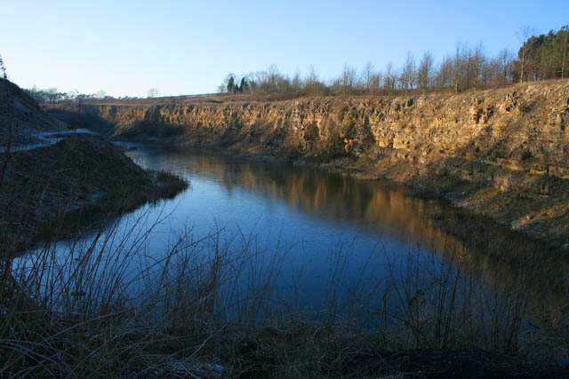 Sproxton South Quarry Late afternoon sun lighting the limestone rock face. The terraced workings are clearly visible on the shady side of the quarry. There was a layer of ice about one inch thick on the water: tested by throwing stones on it – it took quite a large stone to break the surface.